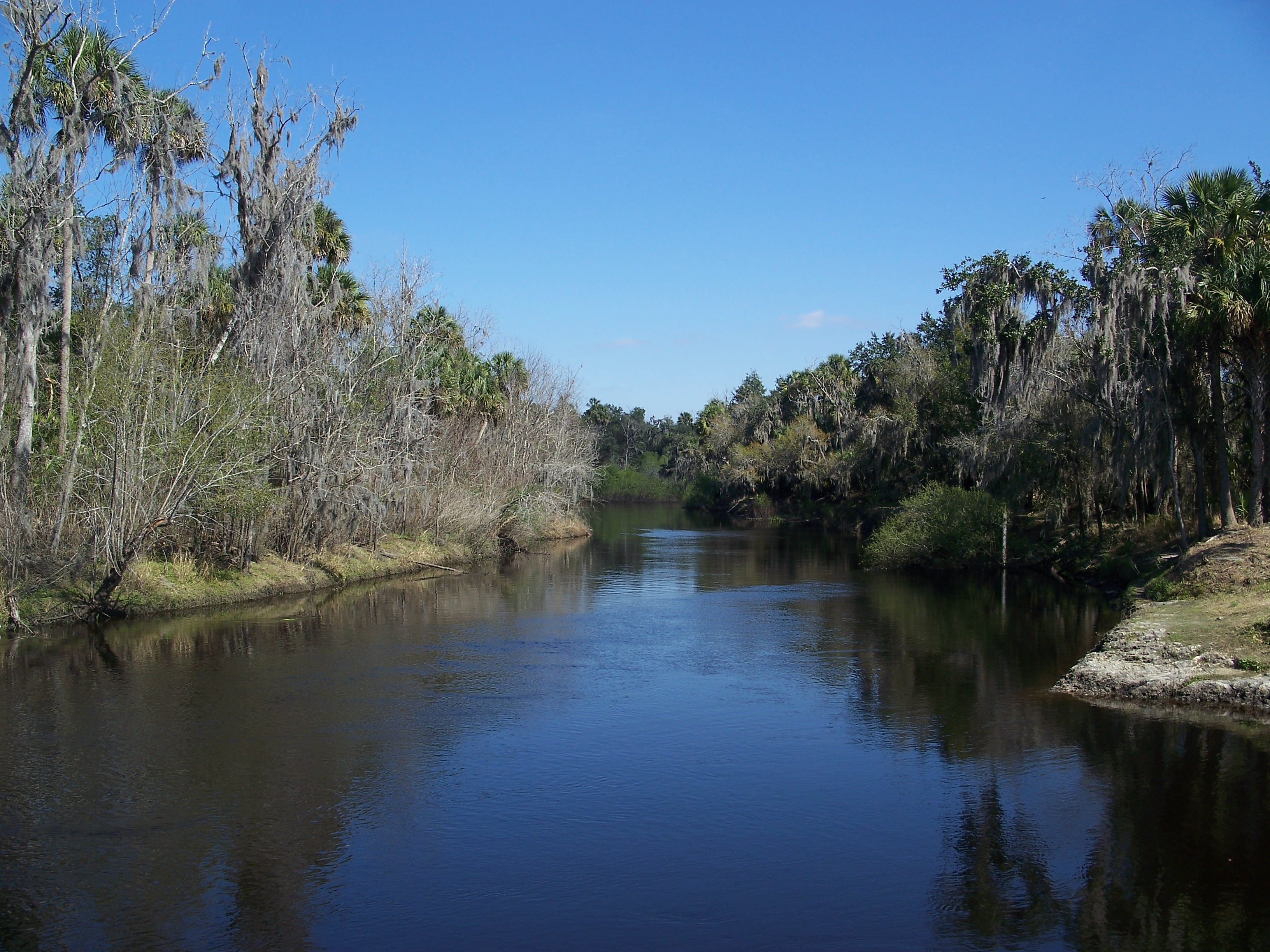 Zolfo Springs, Florida: Peace River at Pioneer Park.